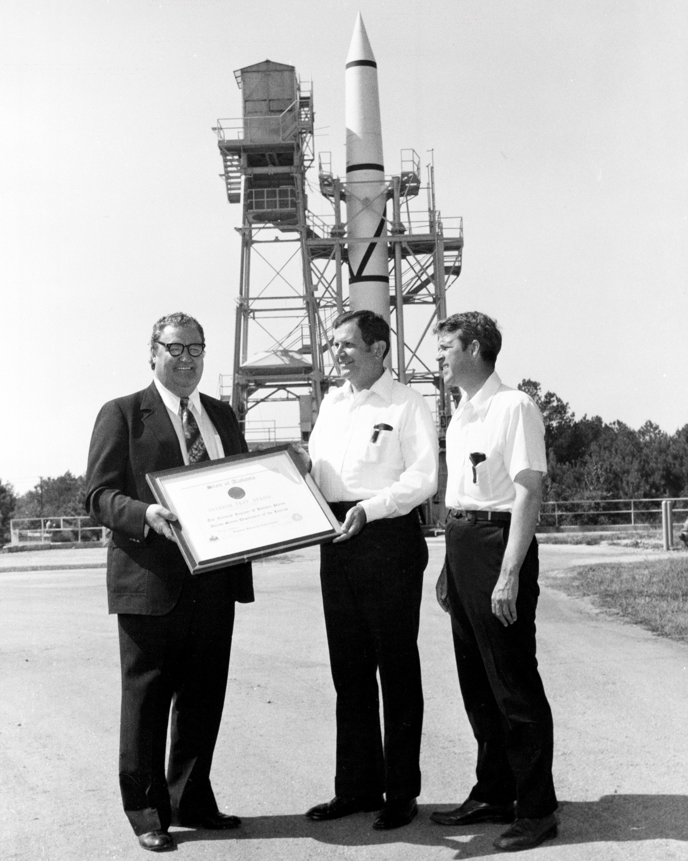 On October 02, 1976, Marshall Space Flight Center's (MSFC) Redstone test stand was received into the National Registry of Historical Places. Photographed in front of the Redstone test stand are Dr. William R. Lucas, MSFC Center Director from June 15, 1974 until July 3, 1986, as he is accepting a certificate of registration from Madison County Commission Chairman James Record, and Huntsville architect Harvie Jones.